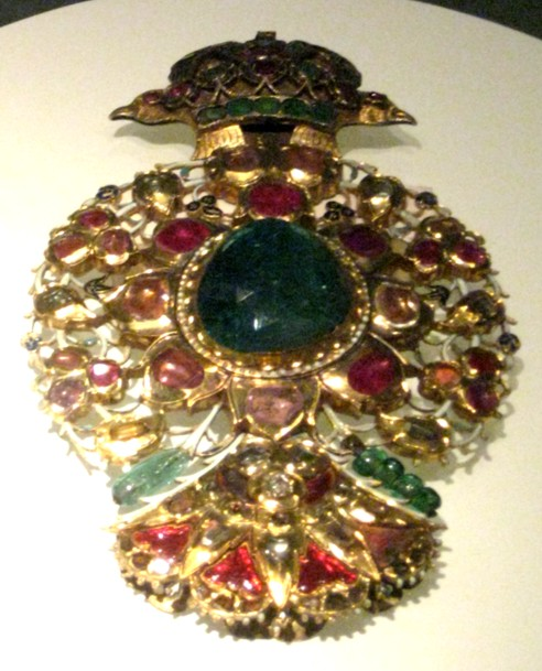 Panagia made in Arkhangelsk from Stambul's turban's broche